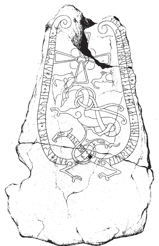 The runestone U 240. The inscription reads tan auk hus(k)arl + auk suain + auk hulmfriþr × þaun (m)(i)(þ)kin litu rita stin þino × aftiR halftan + fa(þ)ur þaiRa tans ' auk hum(f)riþr at buanta sin. In English "Danr and Húskarl and Sveinn and Holmfríðr, the mother and (her) sons, had this stone erected in memory of Halfdan, the father of Danr and his brothers; and Holmfríðr in memory of her husbandman."